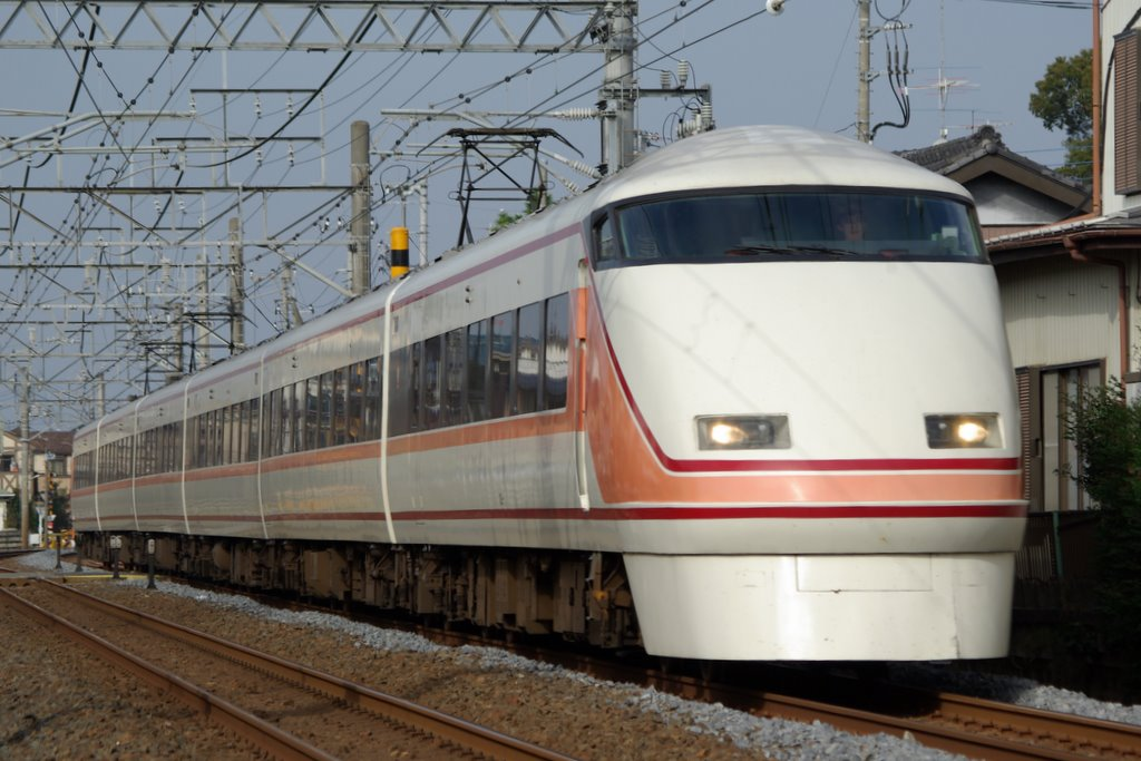 the Tobu 100 series train running between Satte Station and Minami-Kurihashi Station on the Tōbu Isesaki Line